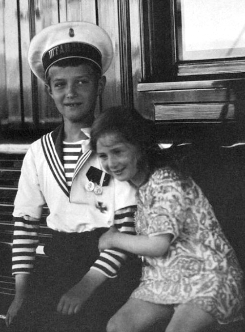 Tsarevich Alexei of Russia with Princess Ileana and Prince Nicholas of Romania aboard the Imperial yacht Standart.